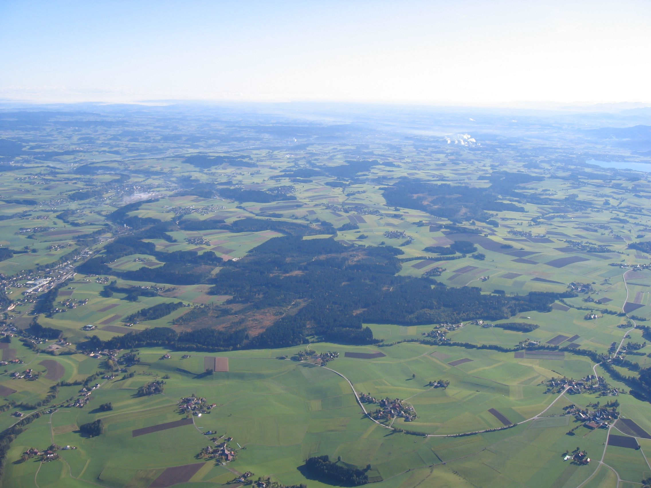 Vöckla-Ager Hills